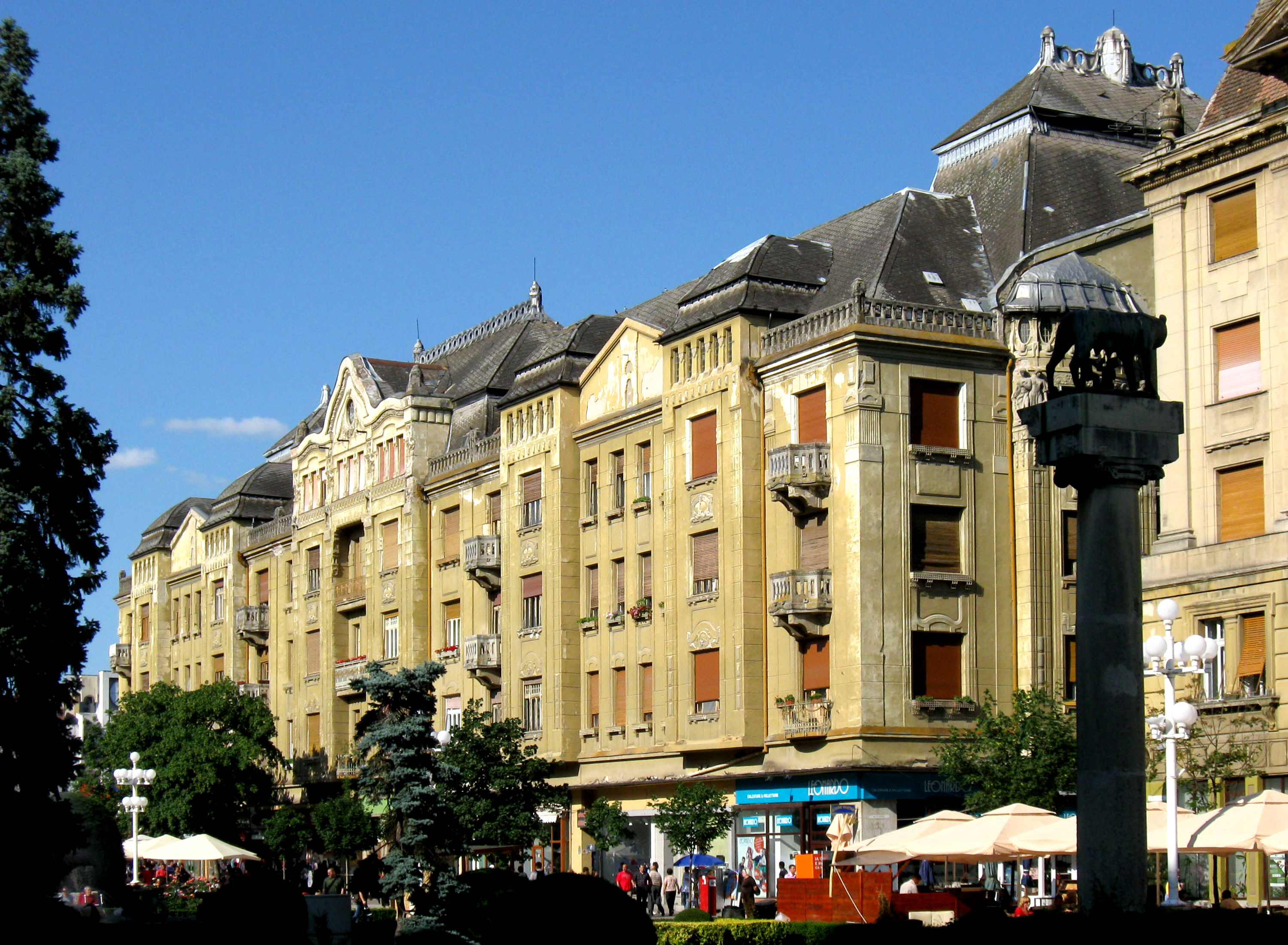 Löffler Palace, Timisoara, Romania. Built 1912-1913, architect Leopold Löffler.